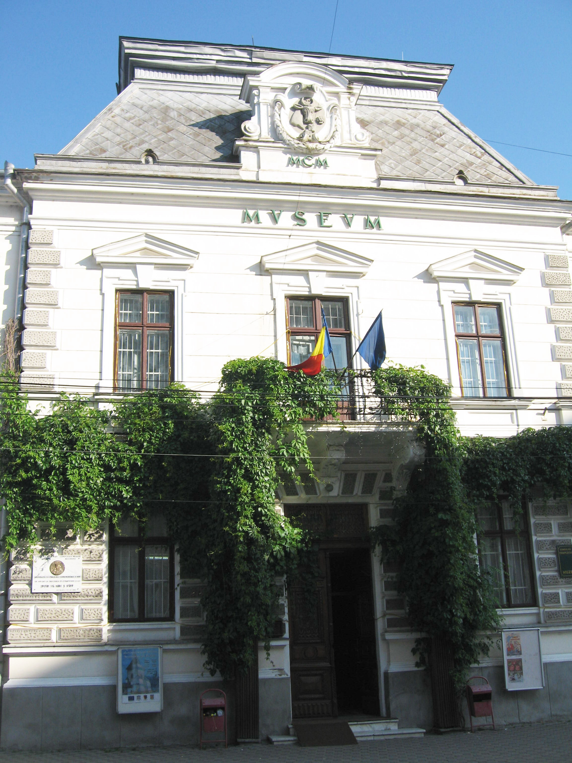 Bukovina Museum in Suceava / Suceava History Museum.